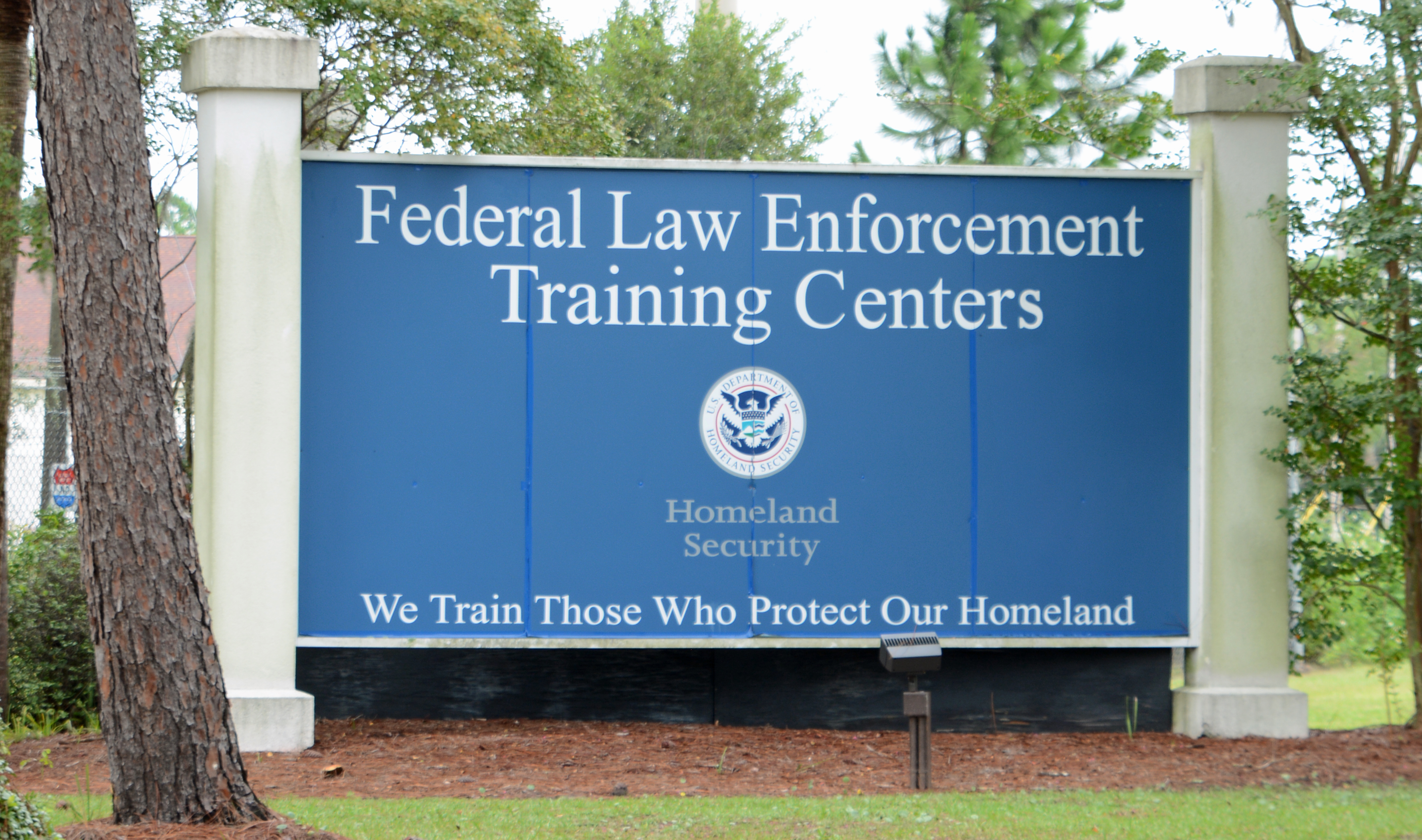 Federal Law Enforcement Training Centers, Brunswick, Georgia, US. This sign was replaced in 2018.